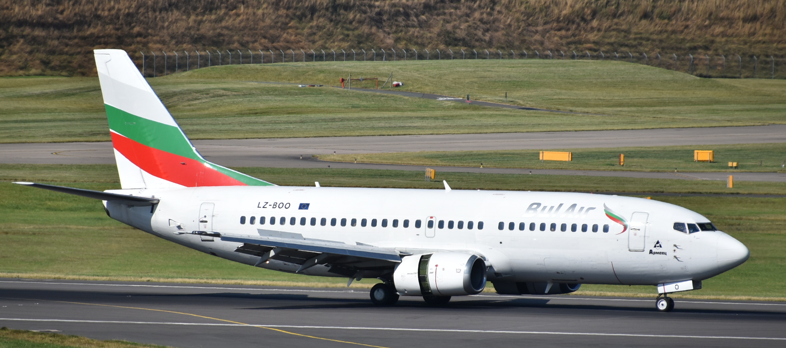 Boeing 737/3 of Bul Air,operating a flight for Blue Air, Romania,arriving rwy.15 at Birmingham-BHX, 19/07/16.